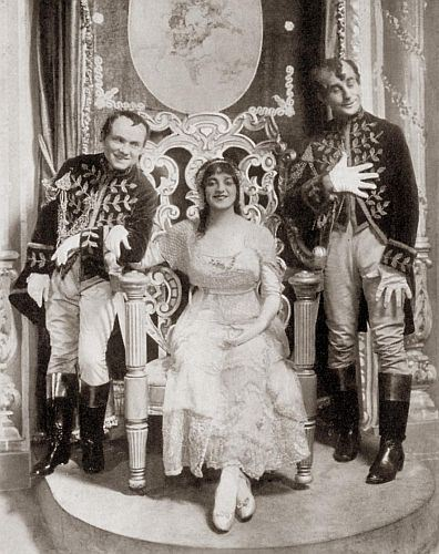 Elsie Janis as Cinderella with David C. Montgomery as Punks and Fred A. Stone as Spooks, in Victor Herbert’s musical play, The Lady of the Slipper, produced at the Globe Theatre, New York, 28 October 1912